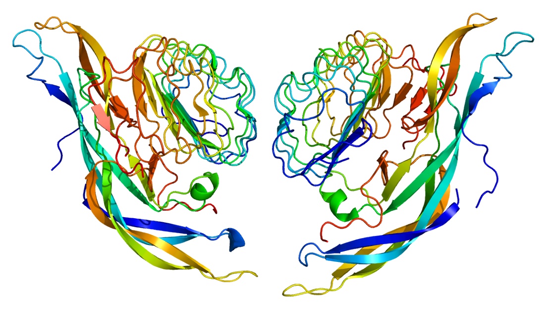 Structure of the FSHR protein. Based on PyMOL rendering of PDB 1xwd.